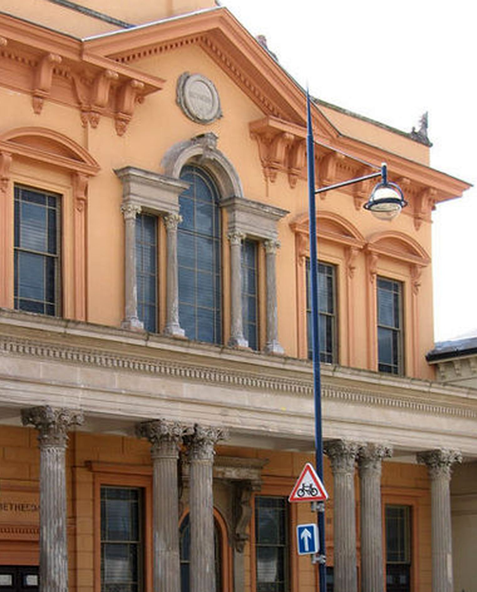 Photograph of Bethesda Methodist Church, Hanley